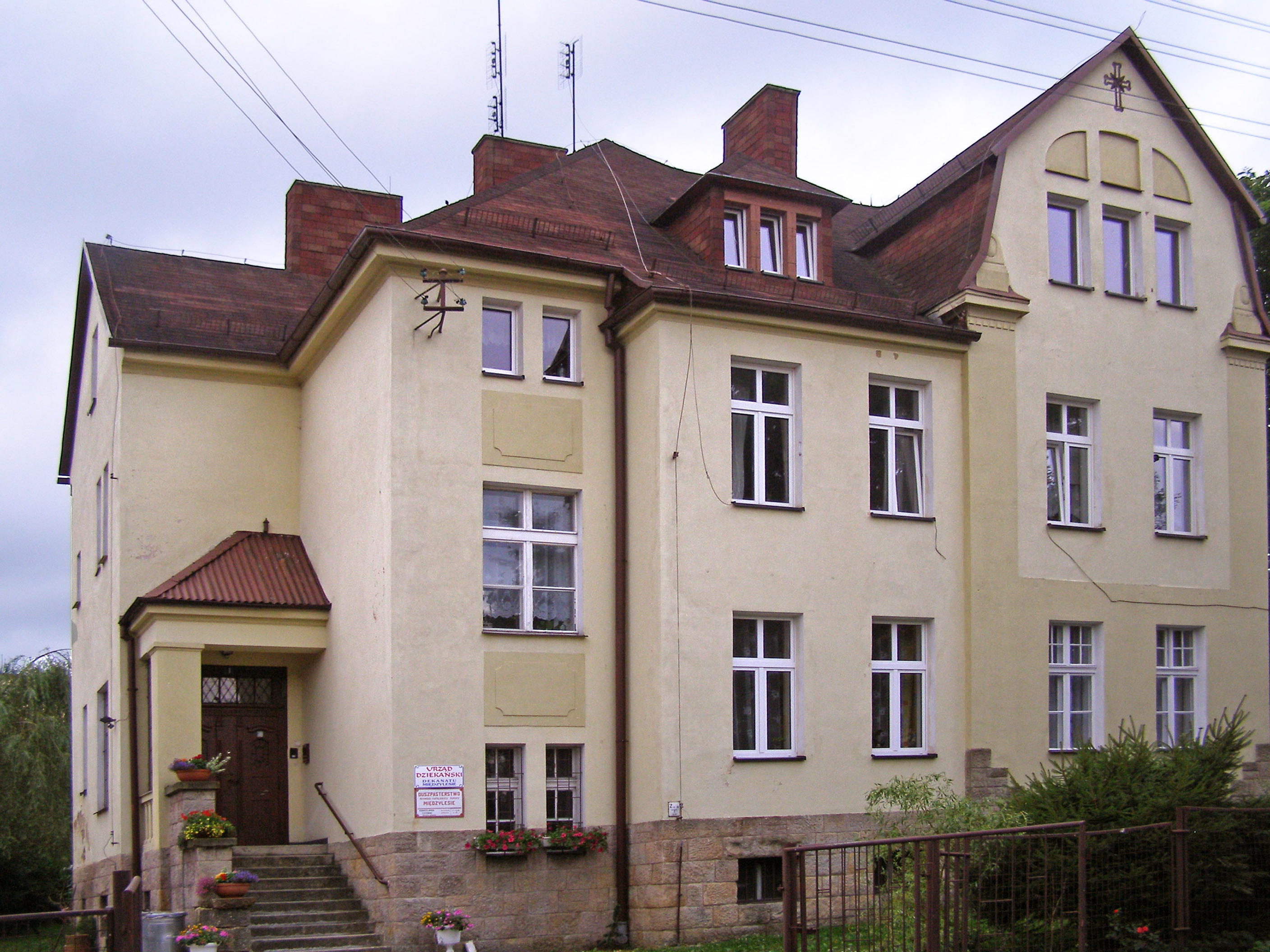 Dekanat in Międzylesie